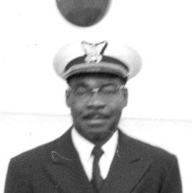 Photo of Oliver Henry with officer corps of the high-endurance cutter Mackinac in 1952. (U.S. Coast Guard)